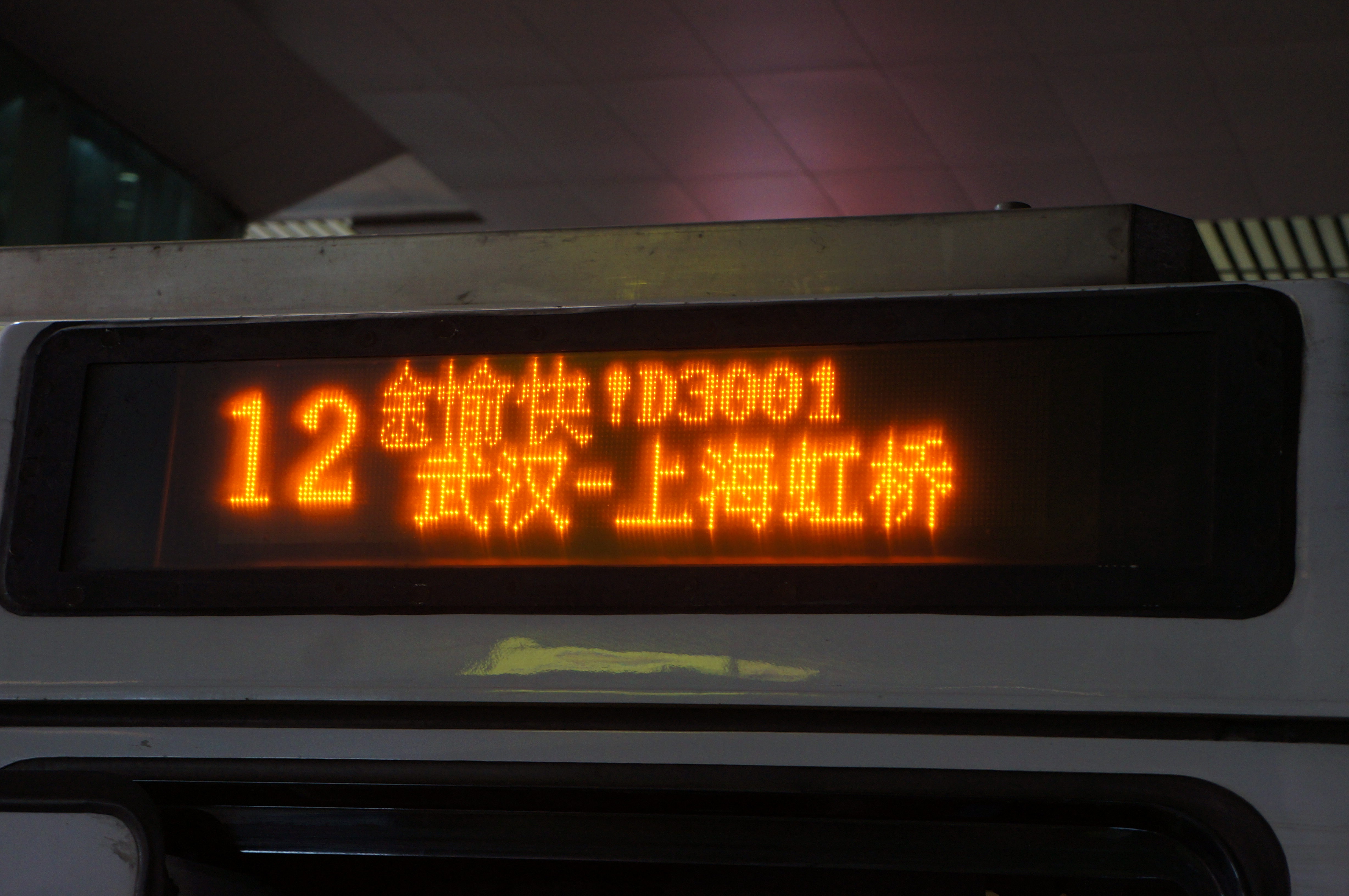 D3001 sign on CRH1B-1080 in 201806